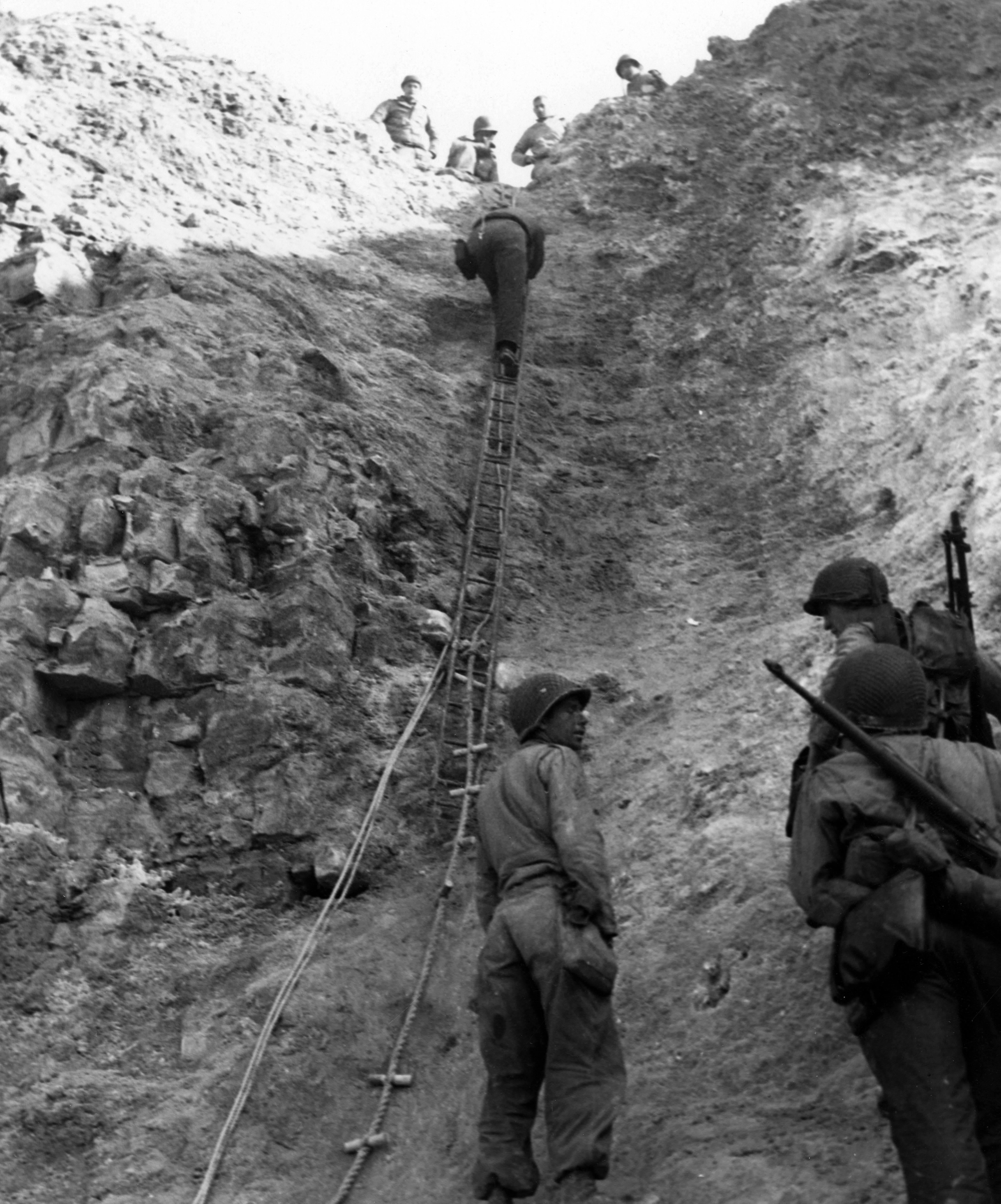 Normandy Invasion, June 1944 U.S. Army Rangers show off the ladders they used to storm the cliffs at Pointe du Hoc, which they assaulted in support of "Omaha" Beach landings on "D-Day". Removed caption read: Photo #80-G-45716 Army Rangers at Pointe du Hoc, 6 June 1944